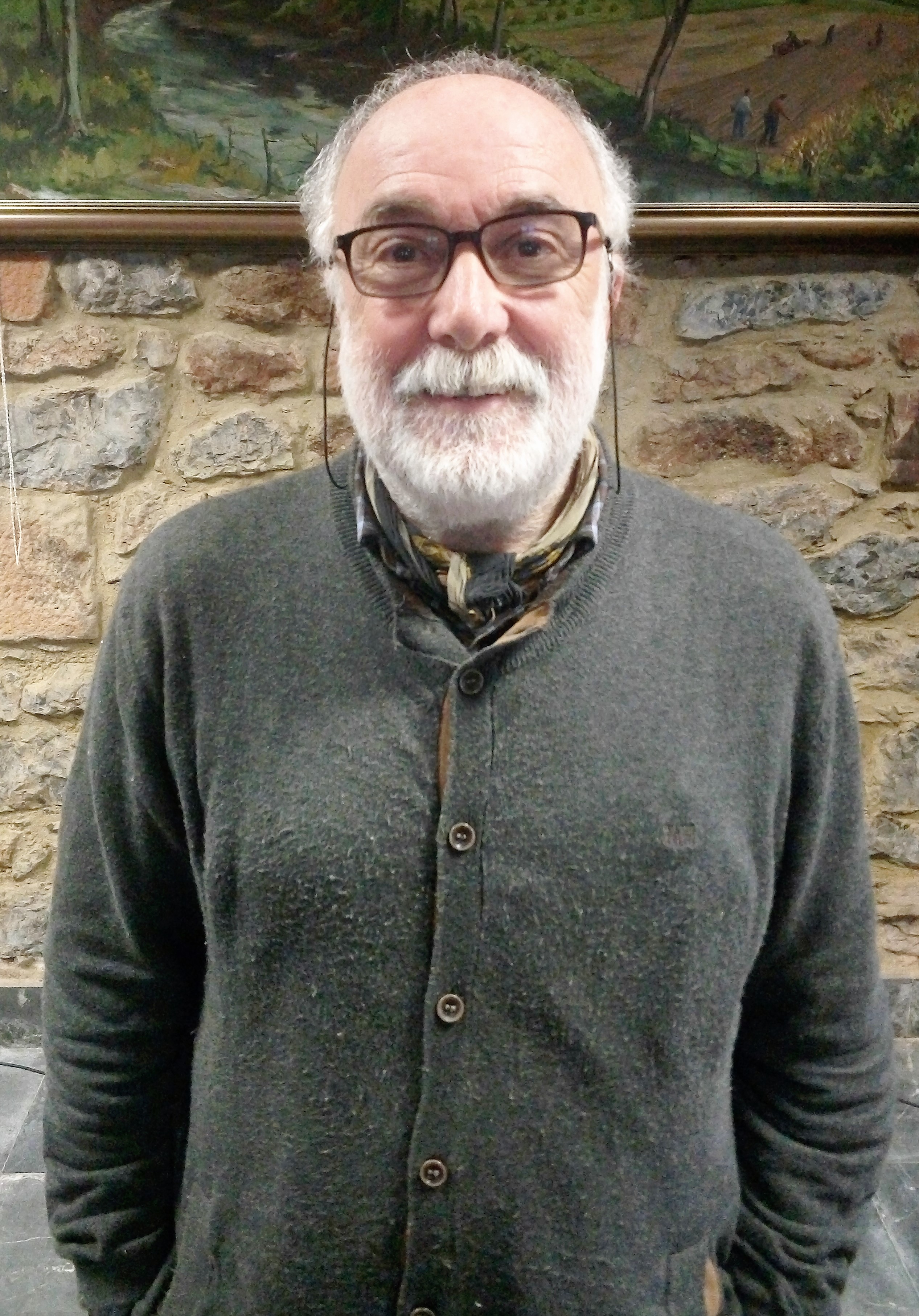 Juan Mari Beltrán, Basque musician and musicologist, in Oiartzun, Guipúzcoa, Spain.